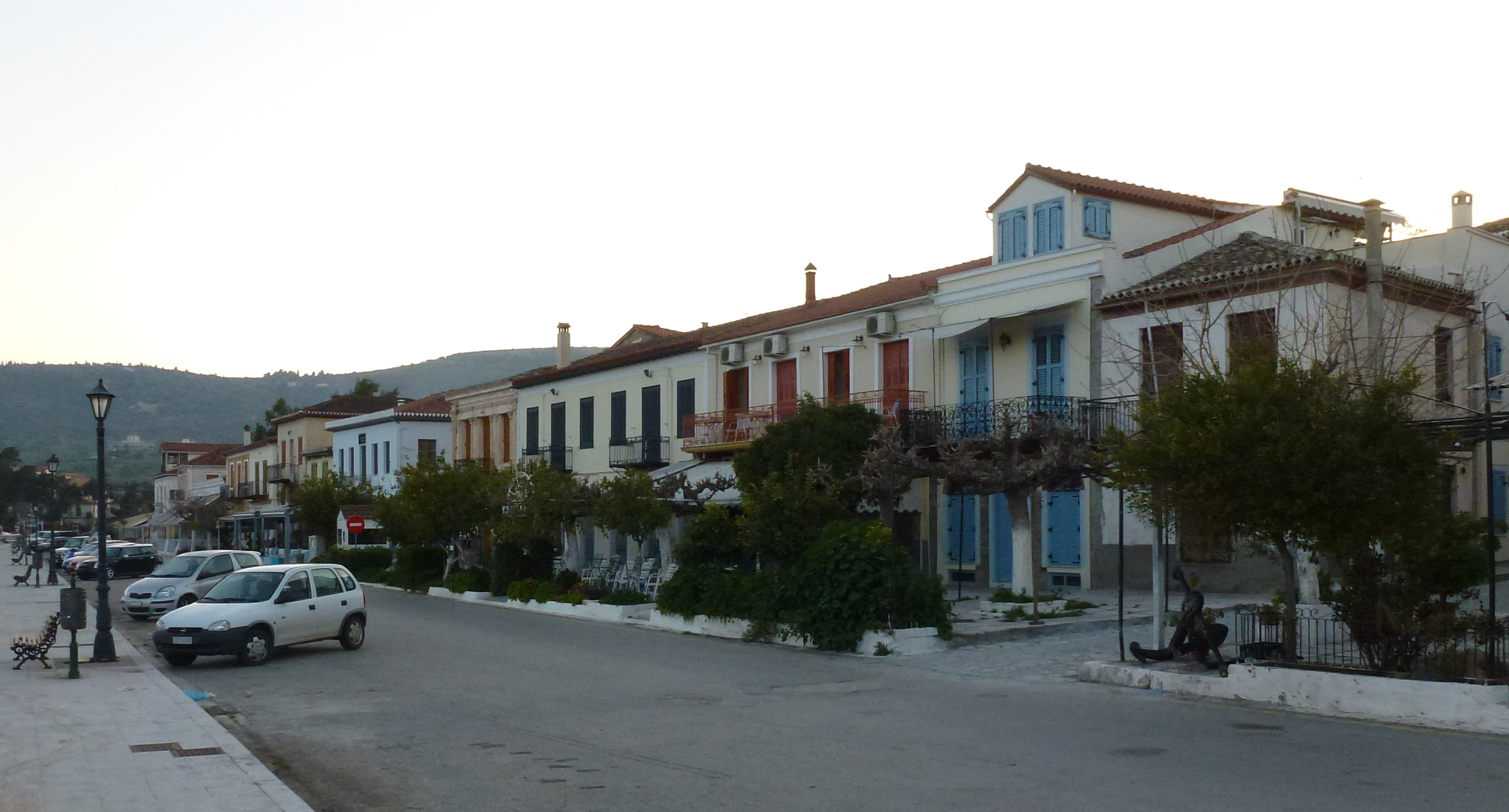 Galaxidi (Harbour), Fokida prefecture, Greece